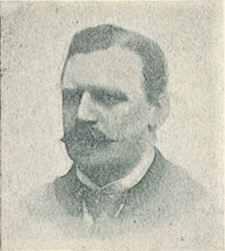 Swedish politician Ivan Axel von Knorring. From page 9 of an album featuring portraits of all the members of the second chamber of the Swedish parliament (Sveriges riksdag) elected in 1897.